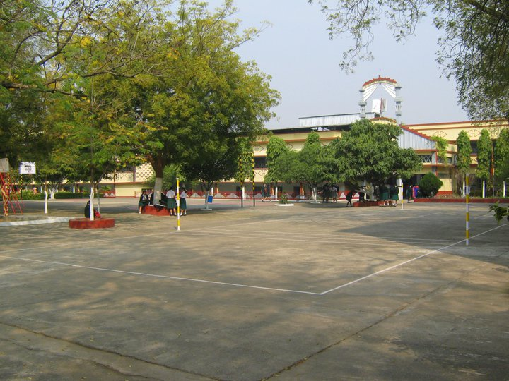 St.Joseph Convent School, Rourkela